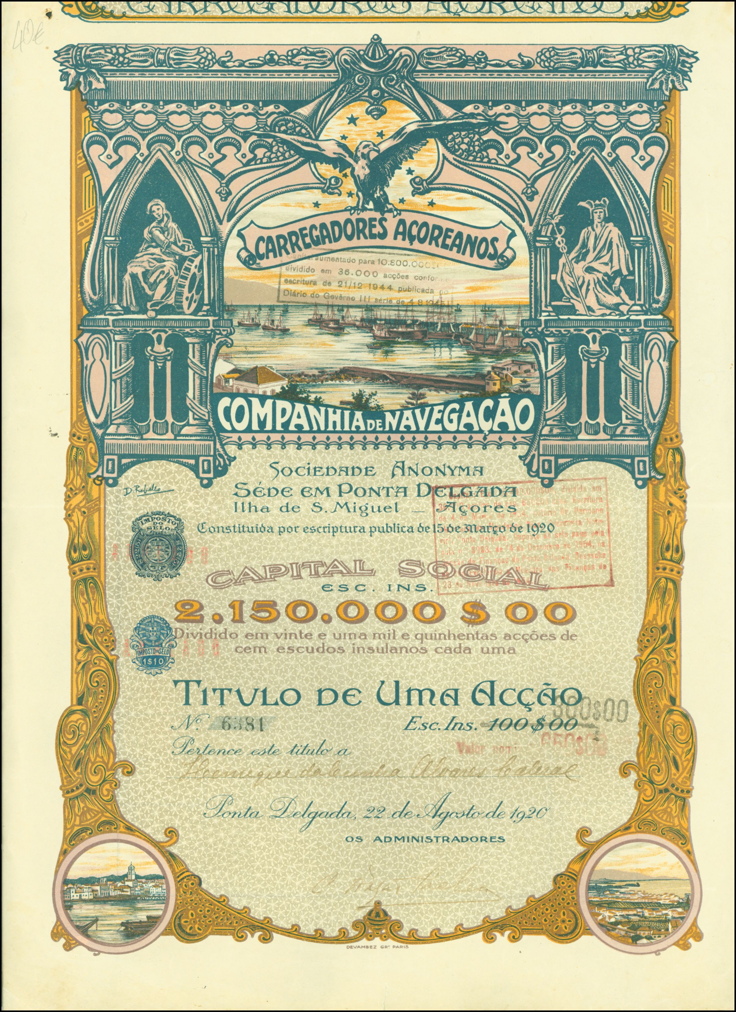 Share of the Companhia de Navegação Carregadores Açoreanos, issued 22. August 1920